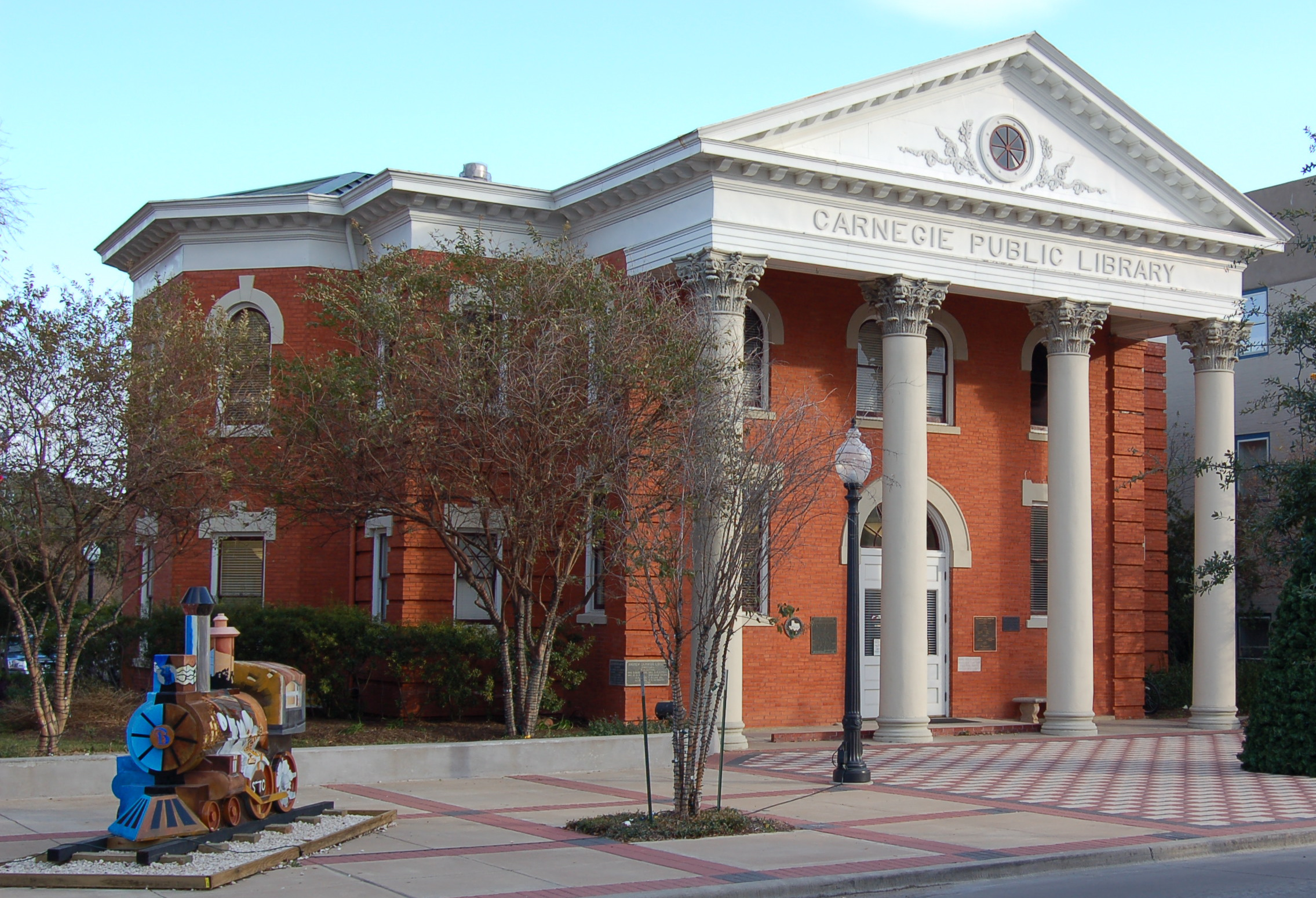 Carnegie Public Library, Bryan, Texas